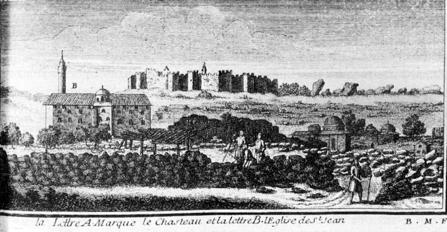 shows the ruins of Ayasoluk/Ephesos.